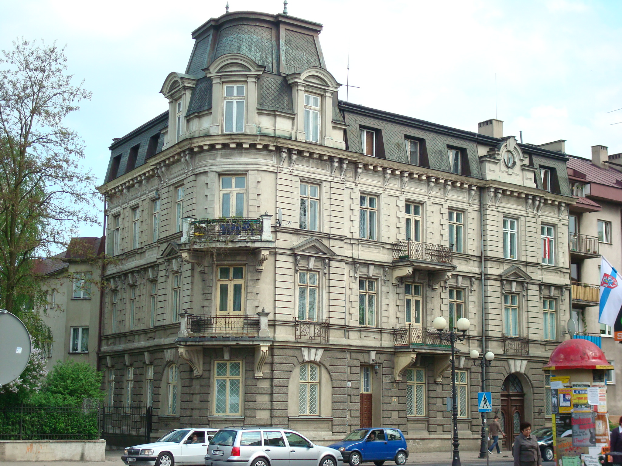 Apartment-house at street Floriańska 5 in Siedlce